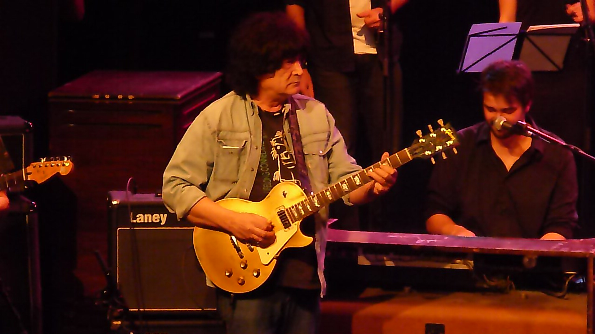 Live on the 5th of December, 2014. Kex Remake (band). Budapest, MOM Cultural Center. Kex band (1969 - 1971) remake koncert. Kisfaludy András (former member of Kex): Our aim was to preserve the heritage of the Kex band. Baksa-Soós left the band as they would kill him if not doing so. ©© Derzsi Elekes Andor, Budapest, 2014, Published in the Metapolisz DVD line. You are authorised to use this photo under Creative Commons – even for commercial, for profit purposes. The photo must be attributed to Derzsi Elekes Andor. All of the photos and vids in the Metapolisz DVD line are under Creative Commons and can be used even for commercial – for profit – purposes. Recommended Citation Derzsi Elekes Andor: Metapolisz DVD line